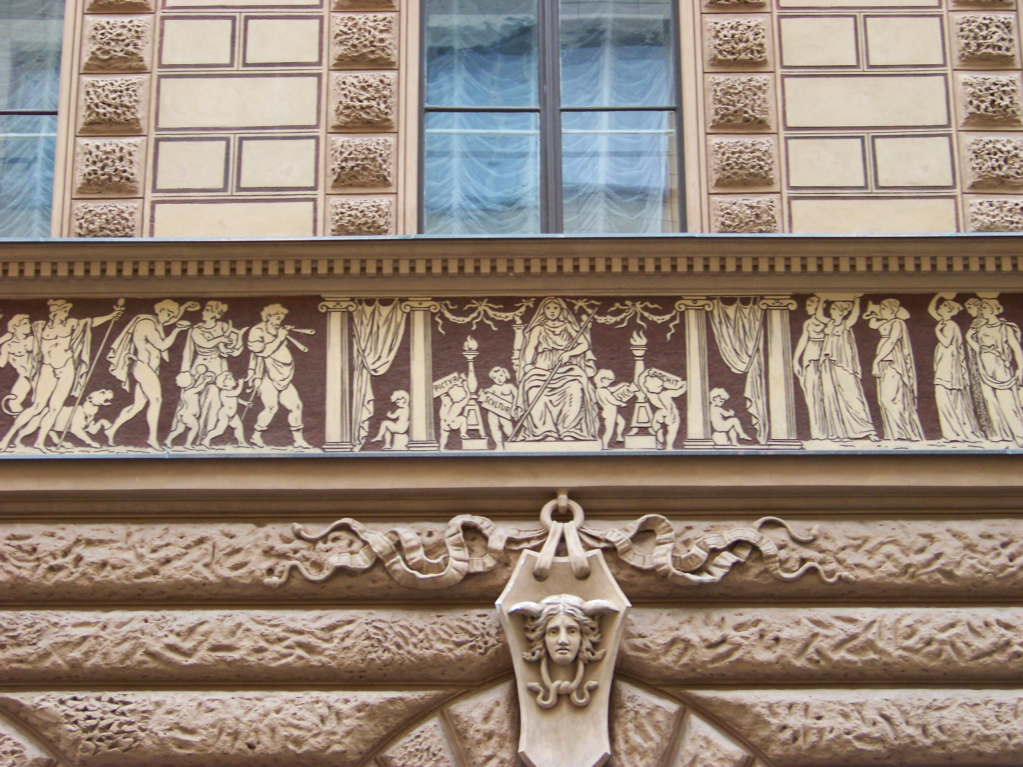 Prague-Vinohrady, the Czech Republic. Mikovcova 548/5.